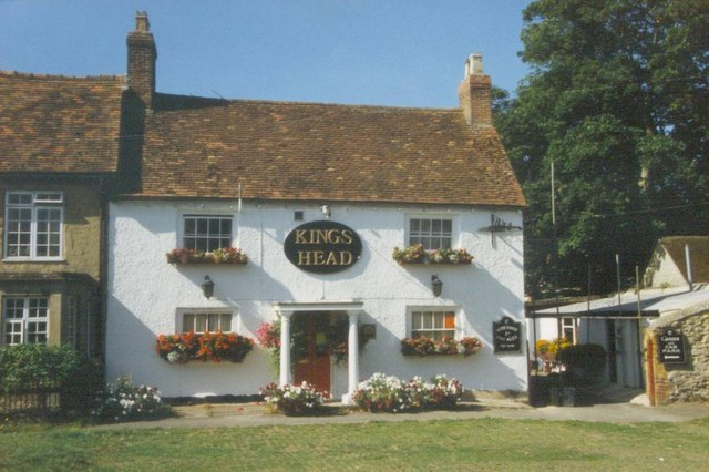 The King's Head pub, High Street, Great Milton, Oxfordshire, seen from east-northeast. It ceased trading about 1999 and has been converted into a private house.